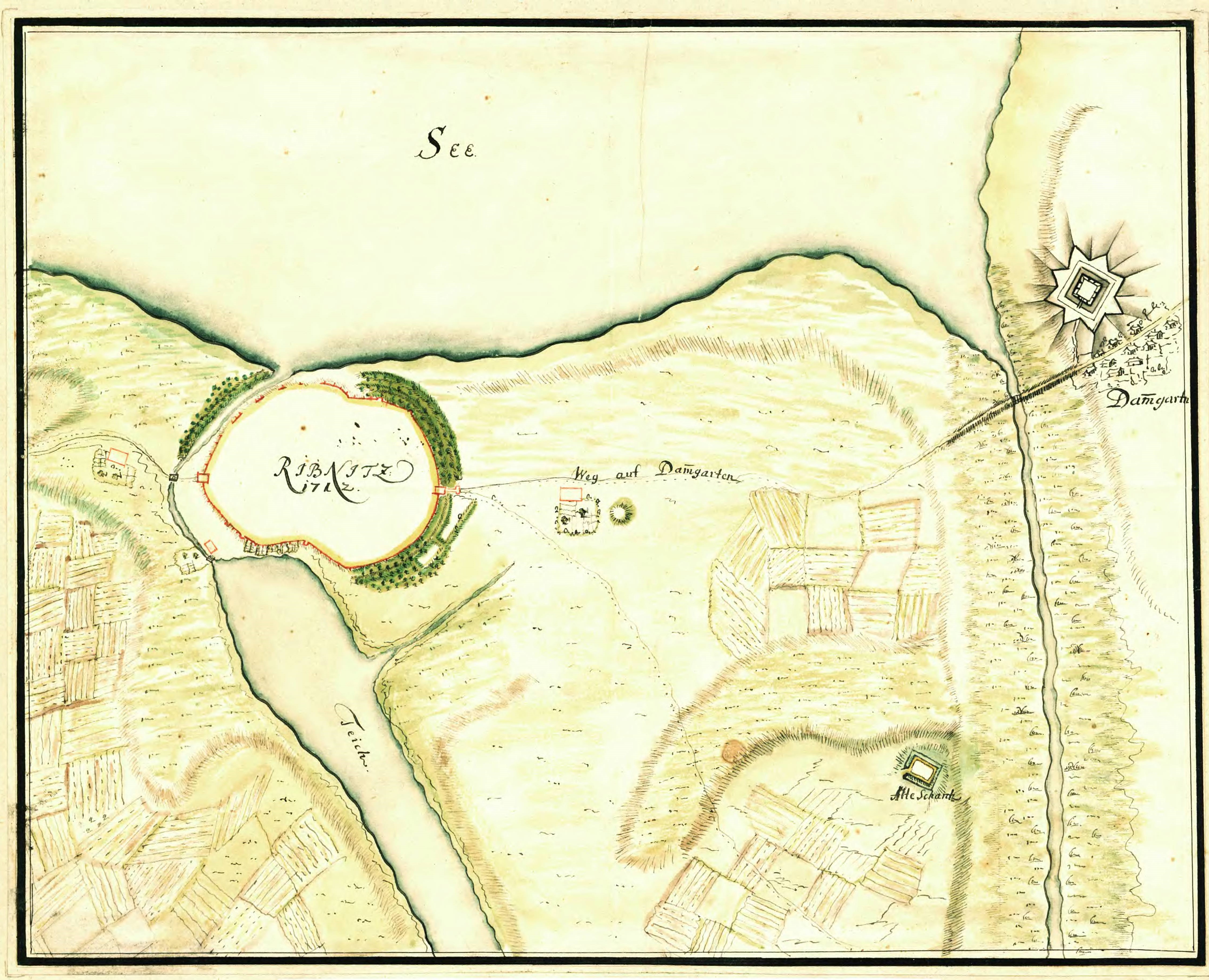 Citymap of Ribnitz